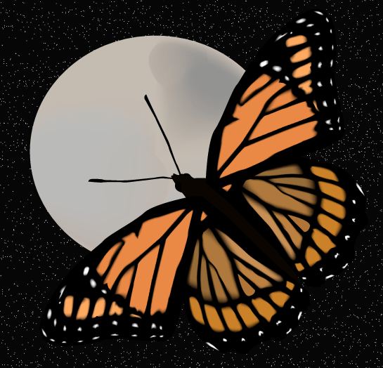 This is a self-made vector illustration of a Viceroy butterfly backgrounded by stars and the Moon. I had originally intended to upload it in SVG format, but the complexity of the design meant a filesize of no less than 1.5MB.